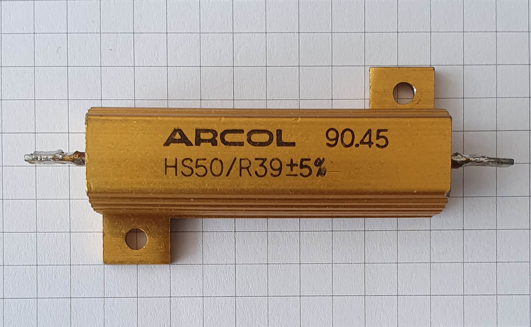 Picture of a 50W high-power wirewound resistor with a nominal value of 39Ohms and a tolerance of 5%. Mechanical type.